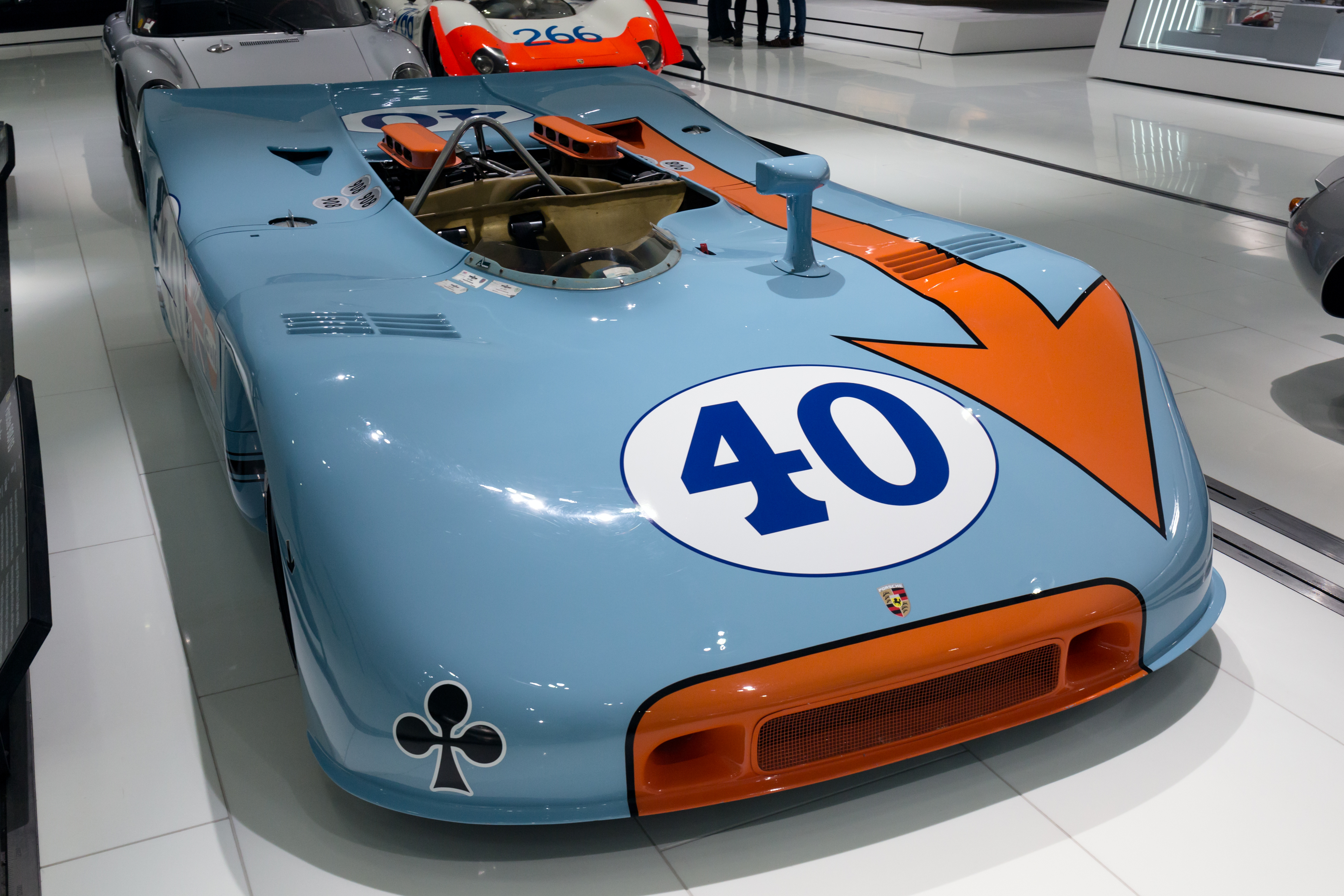 1970 Porsche 908/3 Spyder